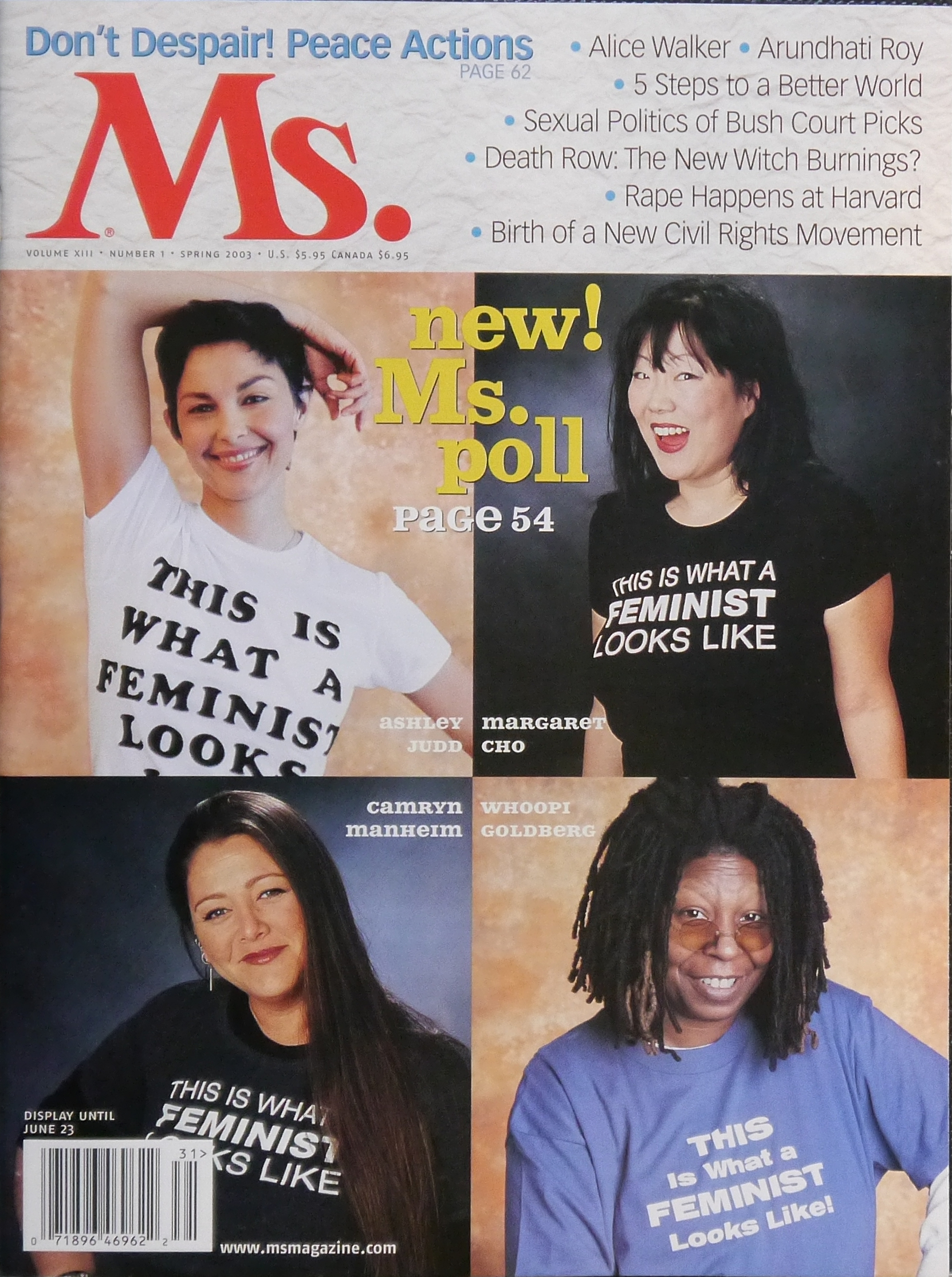 Ms. magazine, Spring 2003 issue featuring the "This is what a feminist looks like," campaign